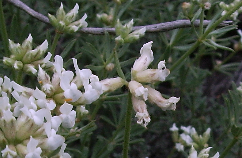 Flowers of Dorycnium pentaphyllum. Castelltallat. Catalonia